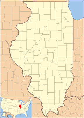 Locator Map of Illinois, United States